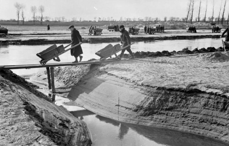 Warsaw Ghetto